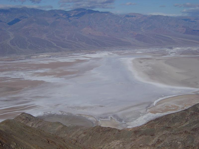 Badwater Basin from Dantes View